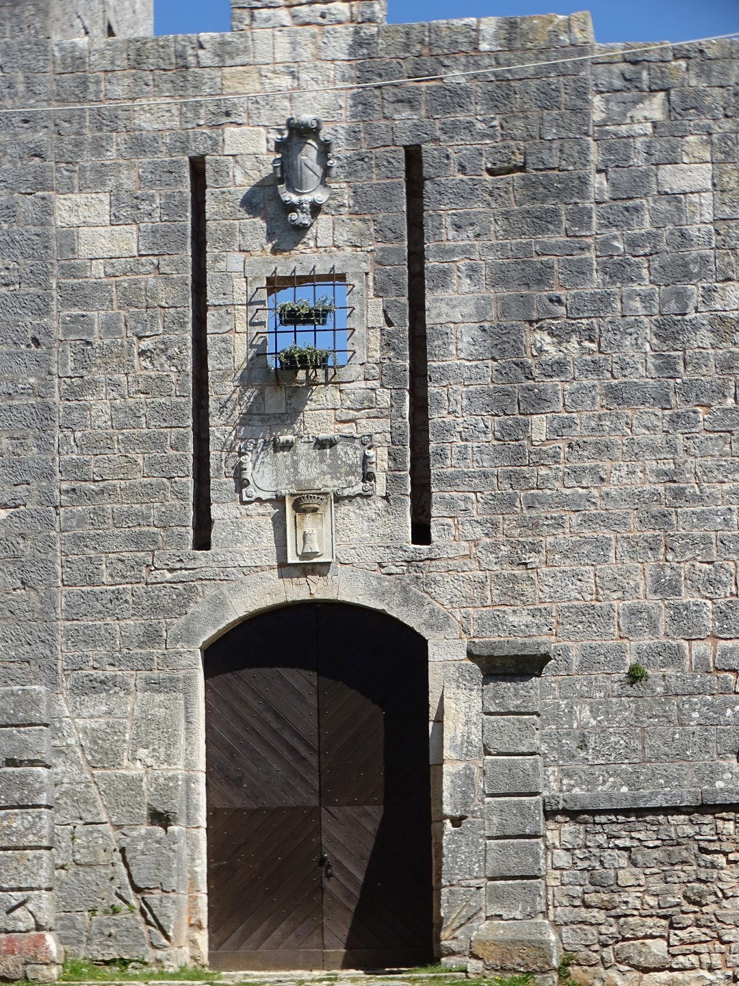 Kaštel Grimani - coat of arms, Svetvinčenat, Croatia